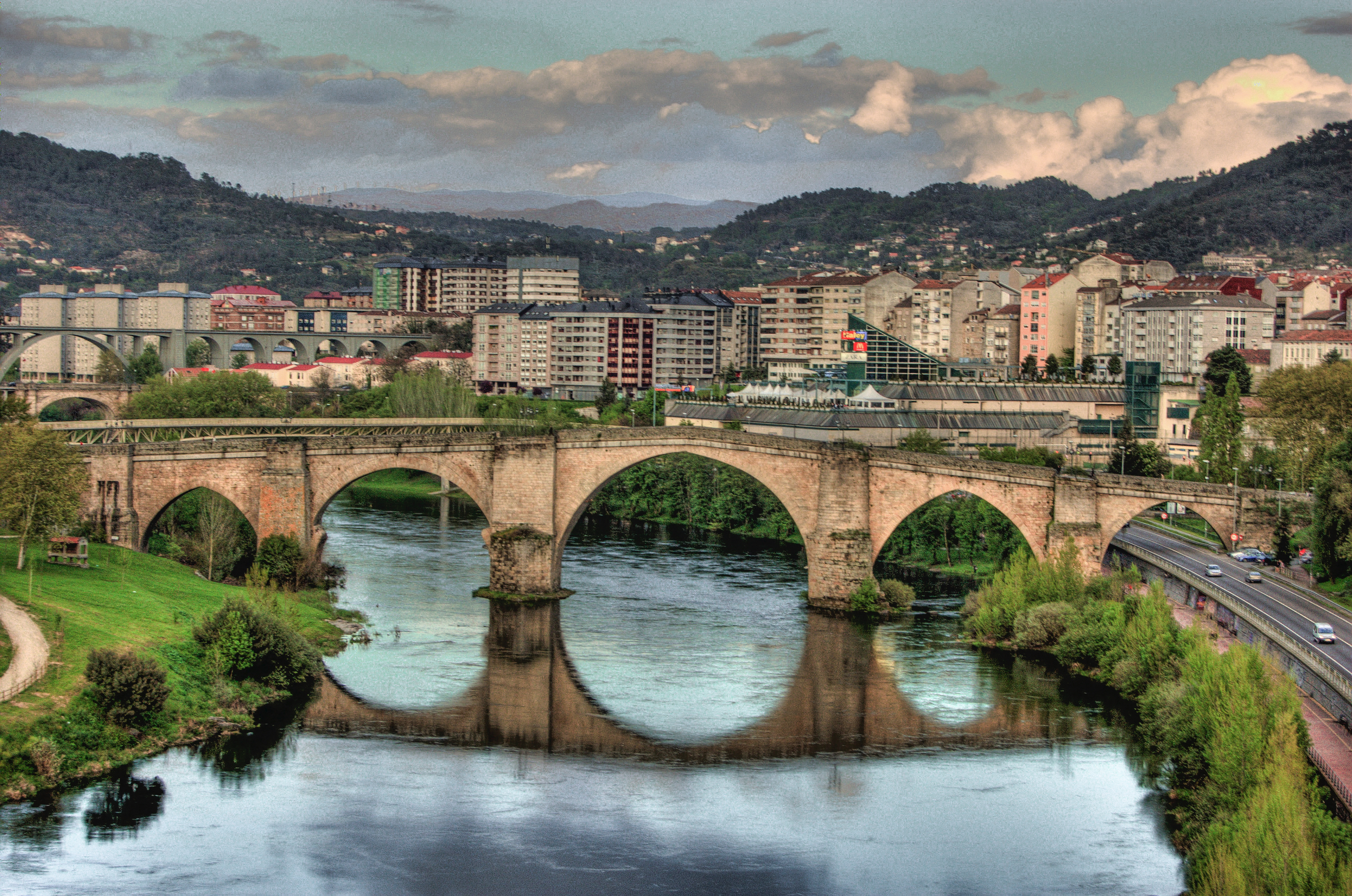 Bridge View of Roman origin of the city of Ourense, Spain. 2008 Ourense (Spain)